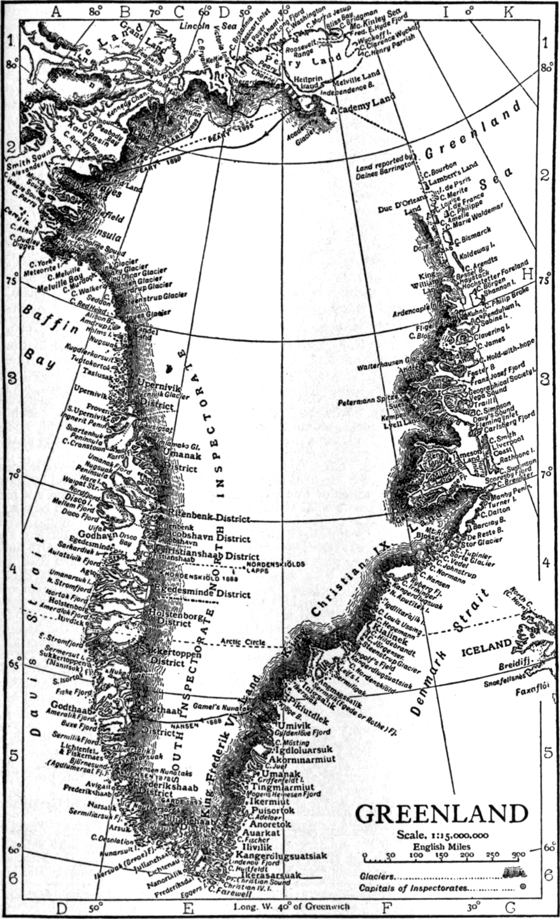 Map of Greenland showing topography and political items.